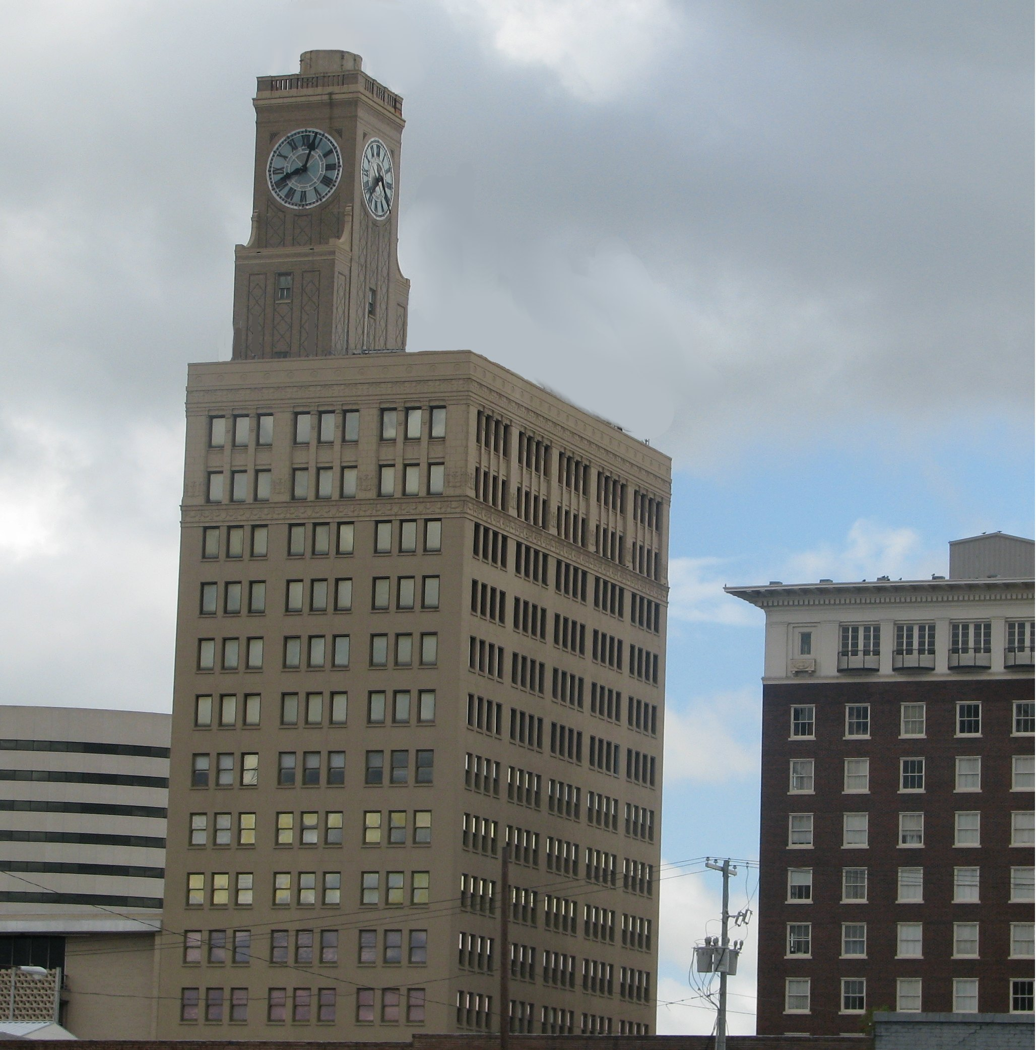 San Jacinto Building